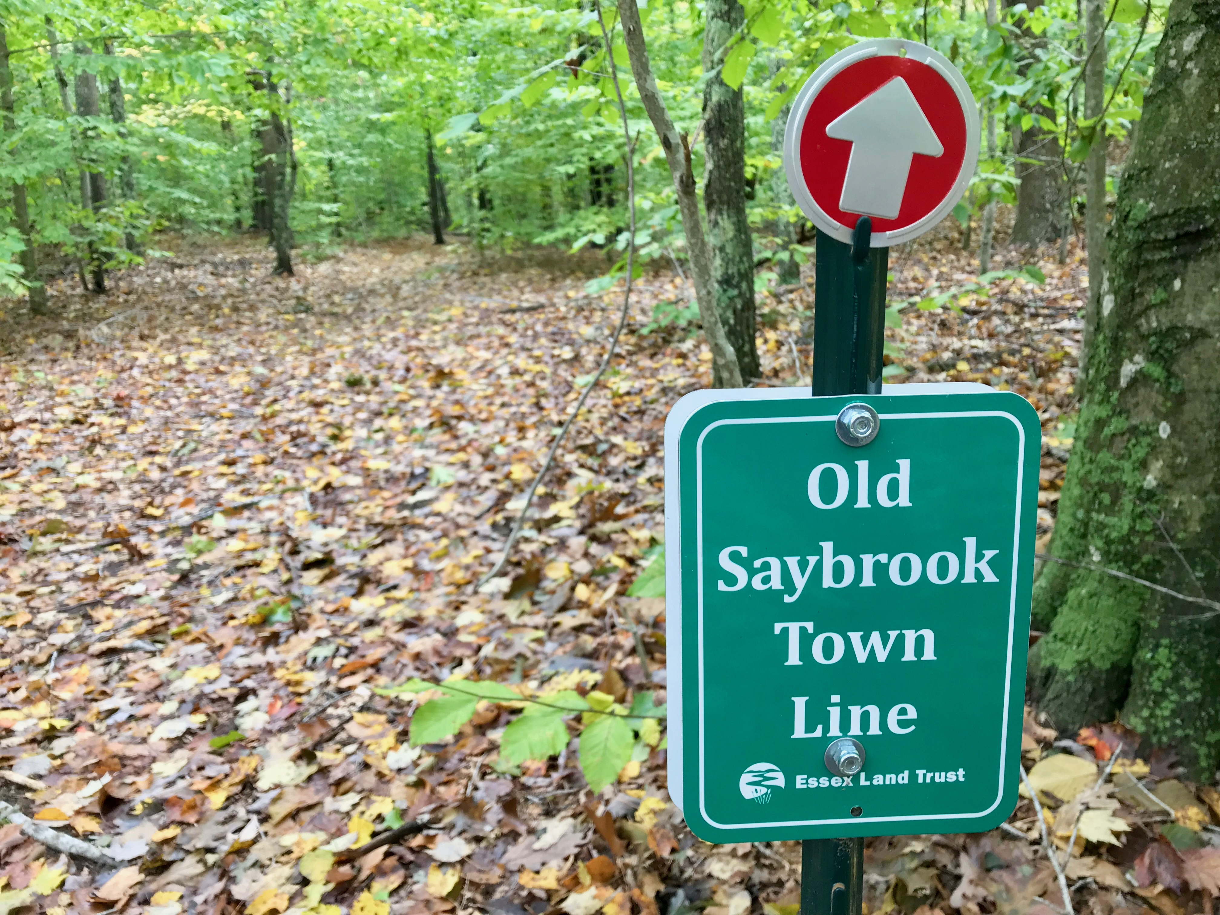 Boundary sign between Old Saybrook and Essex Connecticut inside the Essex Land Trust's section of "The Preserve" protected open space area.